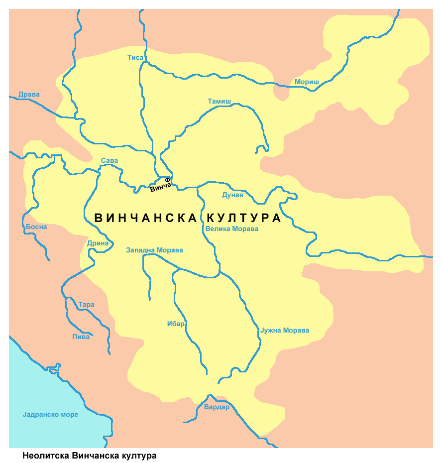 Neolithic Vinča culture.